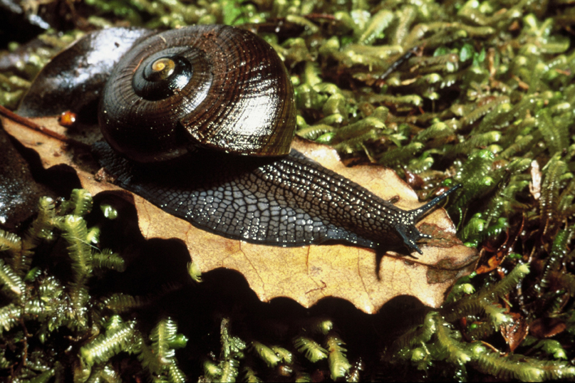 Powelliphanta lignaria johnstoni, Mokihinui River region, West Coast